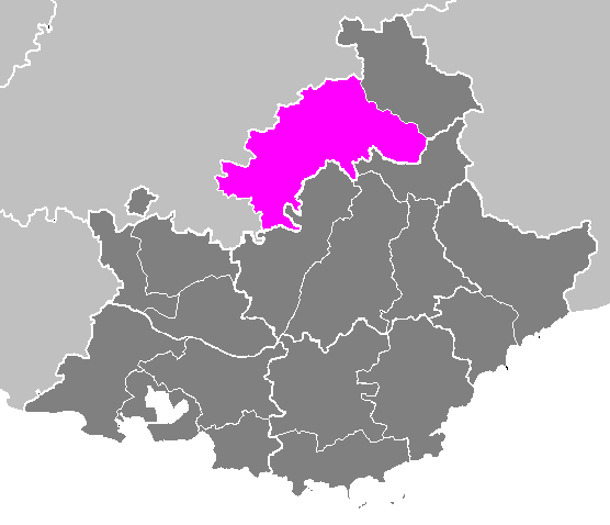 Maps of arrondissements and cantons of France: Arrondissement de Gap.PNG